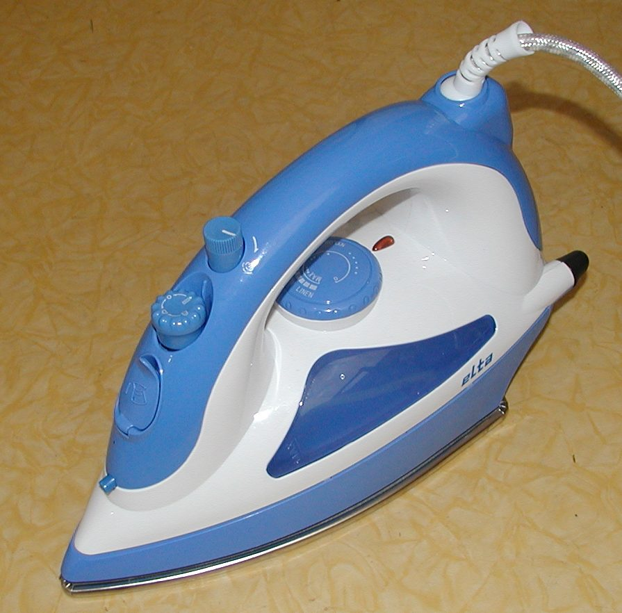 Electric iron